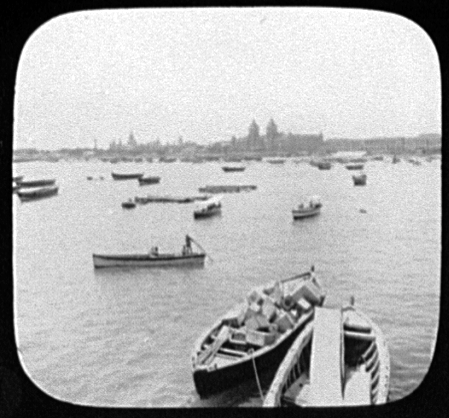 Chennai (Madras), India. View from the harbour 1895